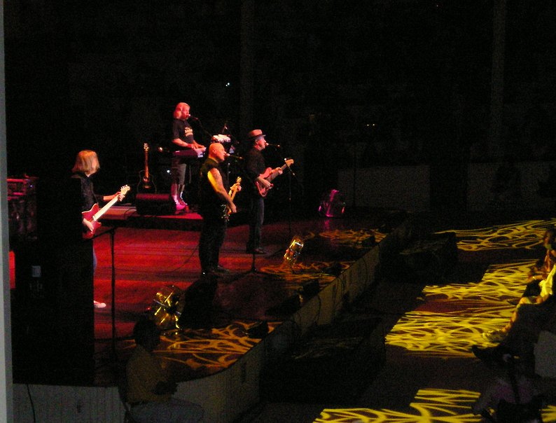 Creedence Clearwater Revisited